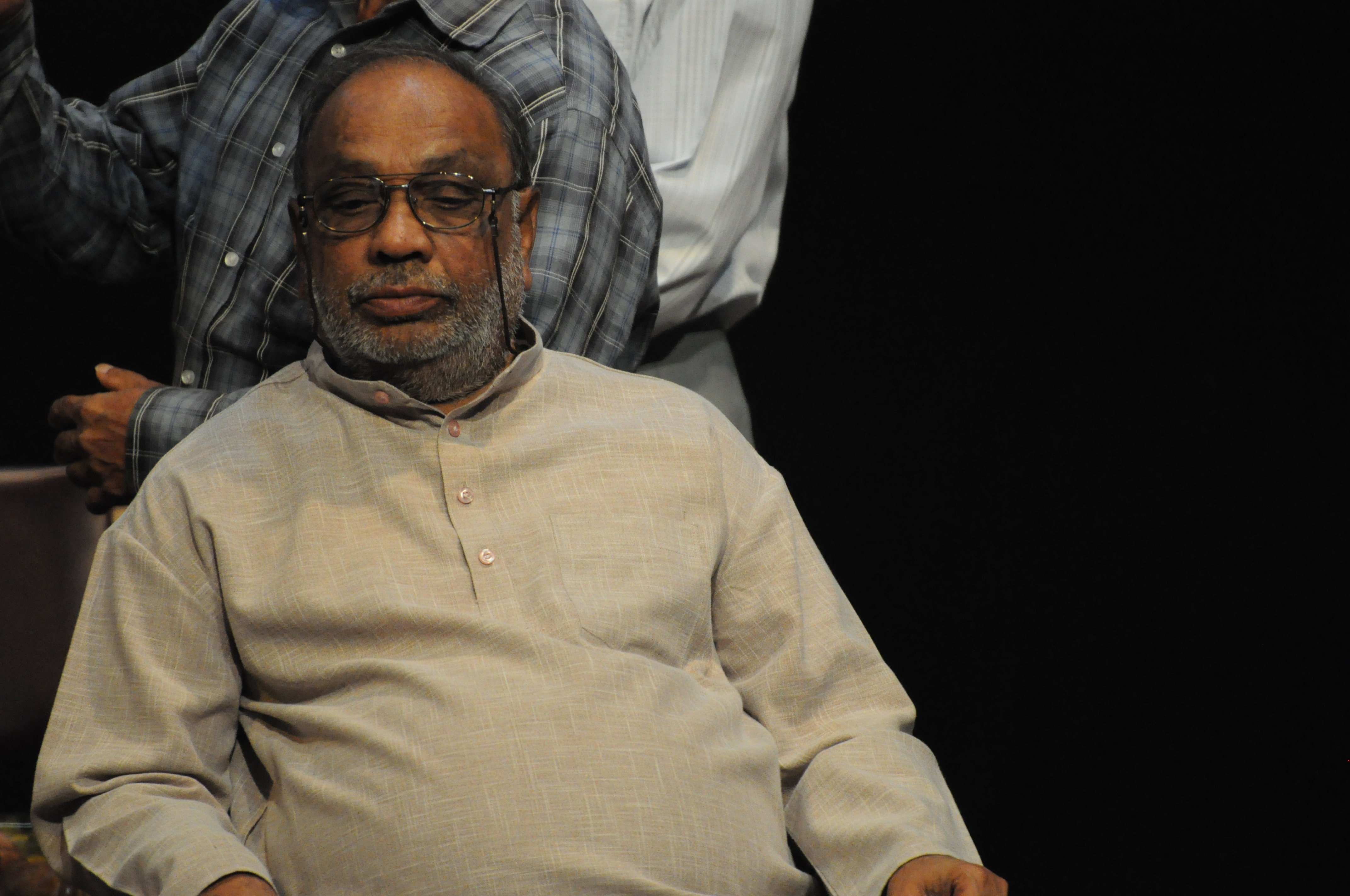 R S Rajaram, Managing Director, Navakarnataka Publications, Karnataka. ಕನ್ನಡ: ನವಕರ್ನಾಟಕದ ಆರ್ ಎಸ್ ರಾಜಾರಾಮ್